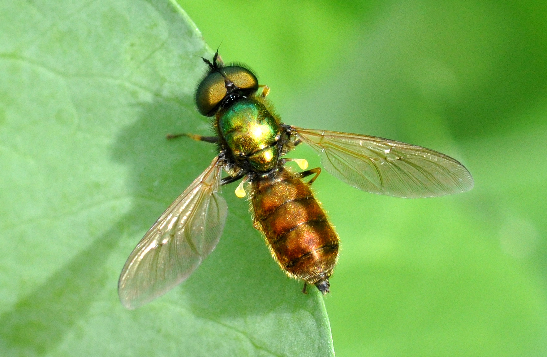 Unidentified Looks like Chloromyia formosa. Please indicate complete data : size, place of shooting, etc. Jean-Jacques MILAN (talk) 21:24, 3 August 2010 (UTC)